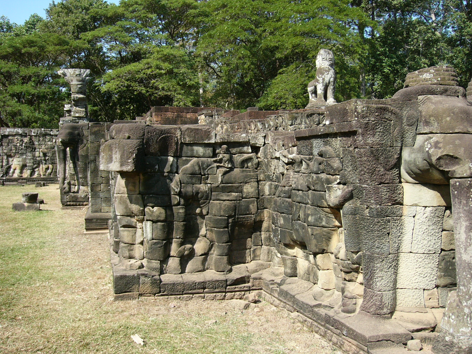 Detail from the Elephant Terrace in Angkor, Cambodia.